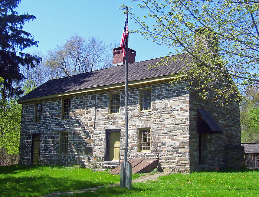 Edmonston House along NY 94 near Vails Gate, NY, USA